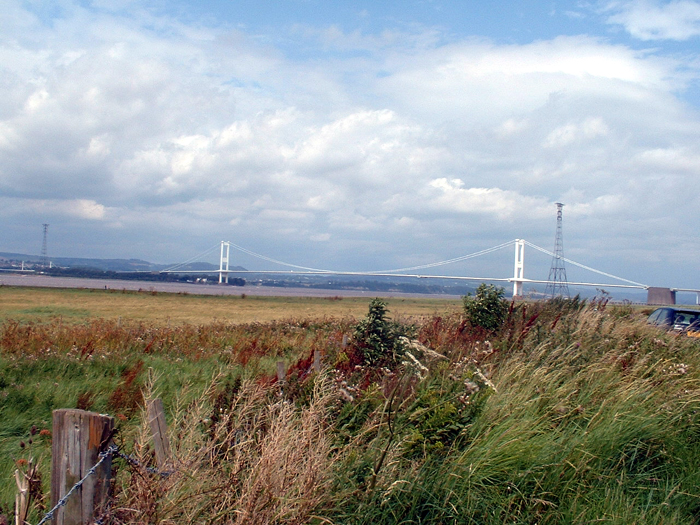 Severn Bridge and overhead power lines, by Joe D, July 2004.